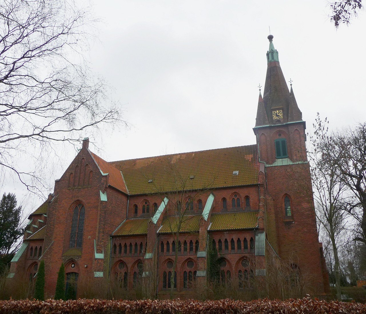 Church St. Nikolai in Hamburg-Finkenwerder